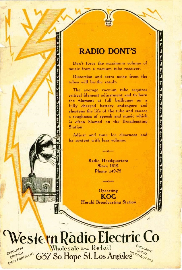 The Western Radio Electric Company of Los Angeles, California operated radio station KOG (originally KZC) from 1921-1923.